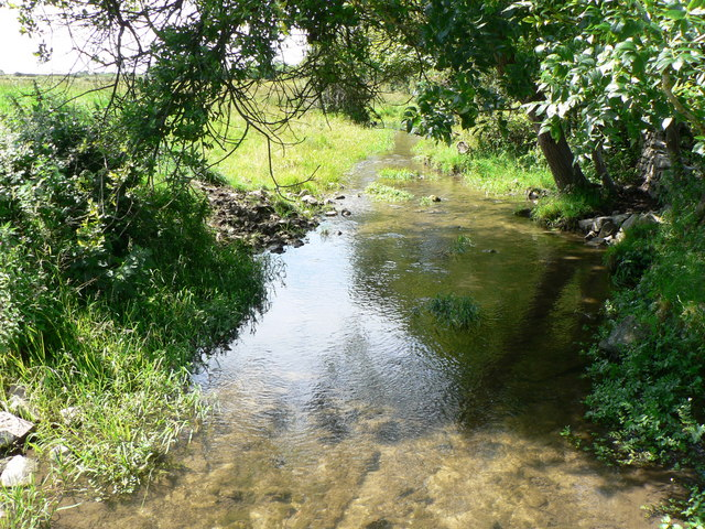 Another view of the Hoddnant, Llanmaes.